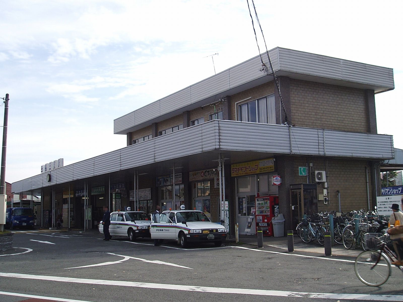 Isuhakone Railway Company, Mishima-Tamachi Sta. 2007.11.26 Photo by Cassiopeia_sweet.